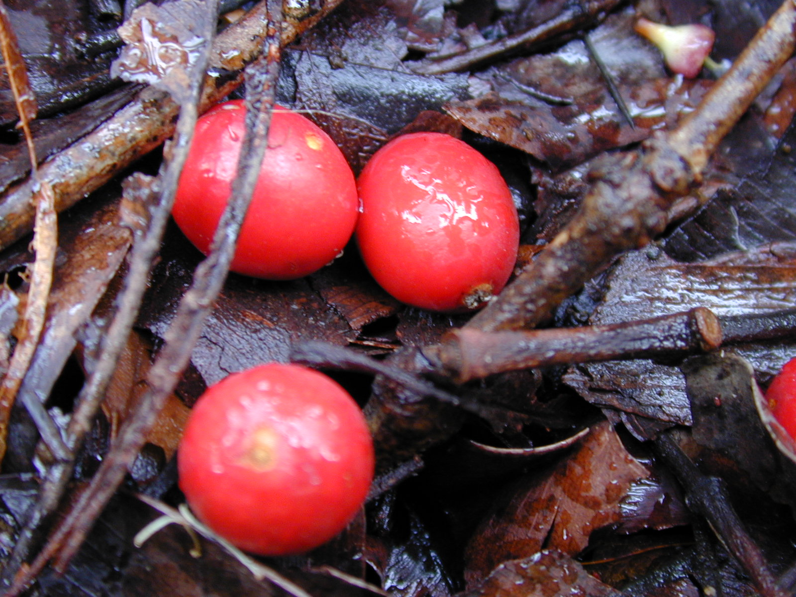 Archontophoenix alexandrae (fruits). Location: Hawaii, Onomea